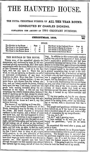 Scanned from All the Year Round (1859)